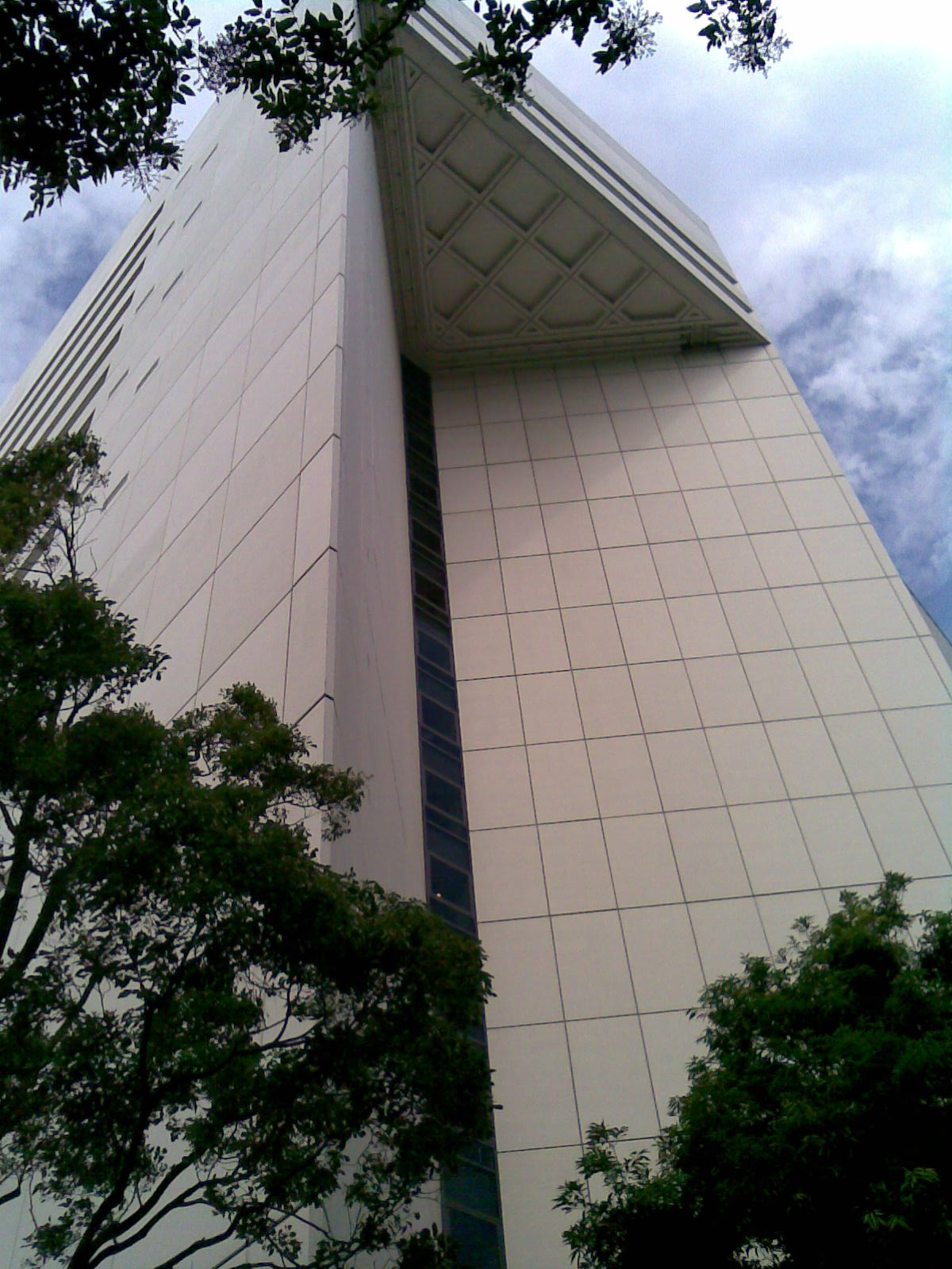 aozora bank in kudanshita